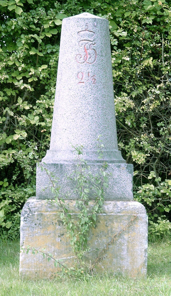 Milestone on Roskildevej in Høje-Taastrup municipality, Denmark. Erected by King Frederik V (1746-1766). Photographer: Dan Simon